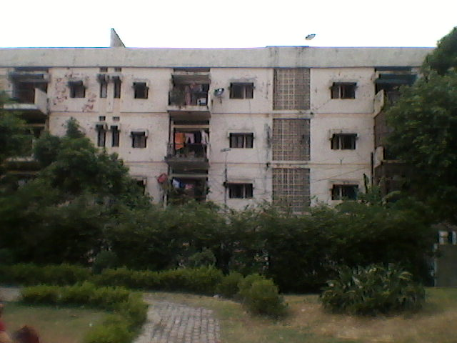 A building in the Z - Block area of Timarpur